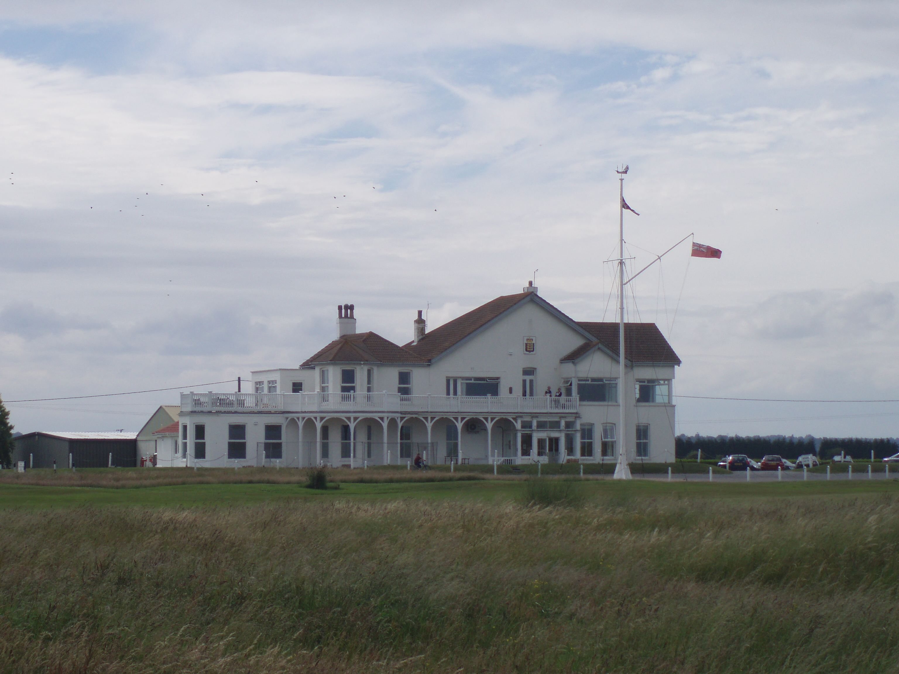 Clubhouse at Royal Cinque Ports GC